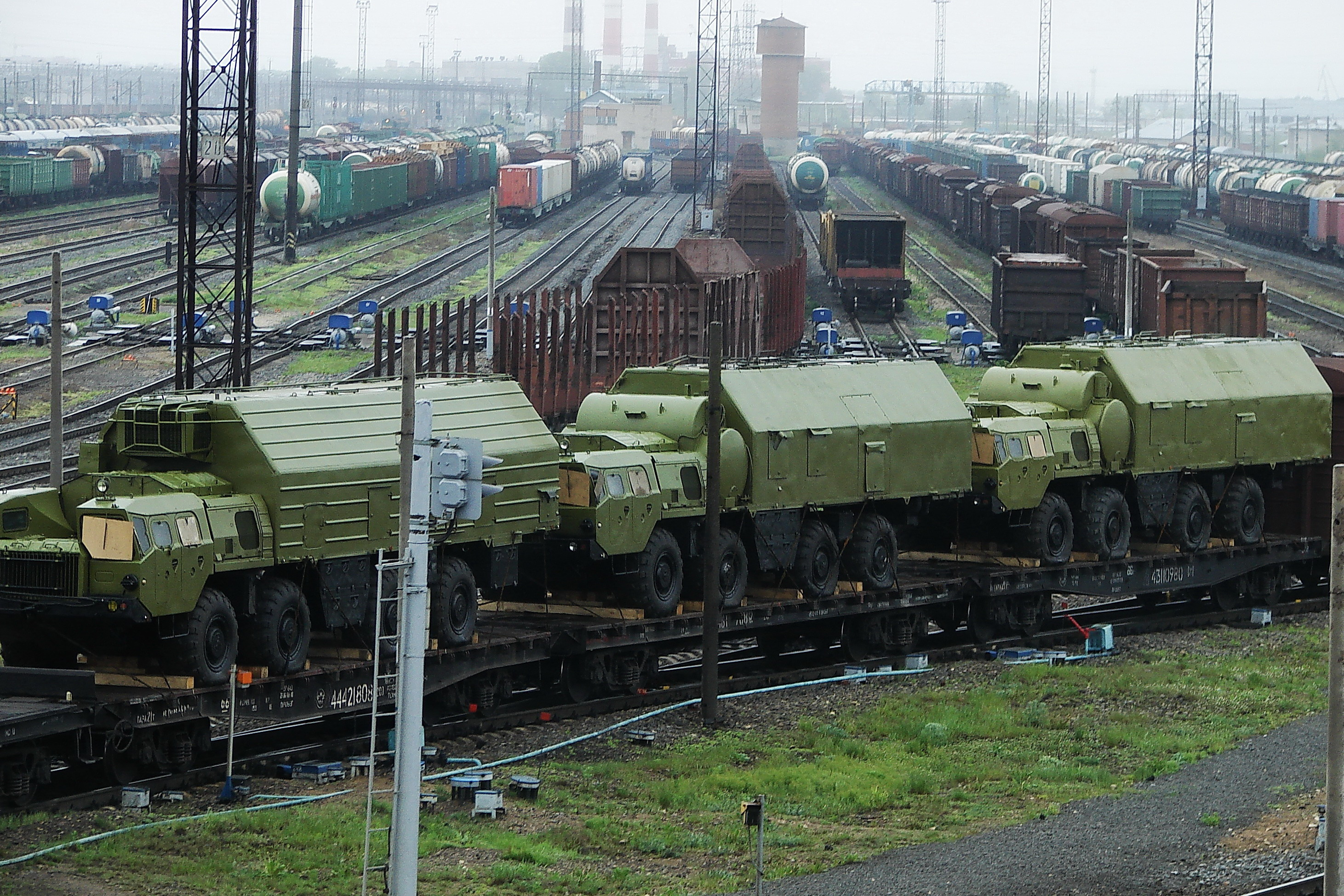 transporting 3 vehicles of complex S-300 by railroad